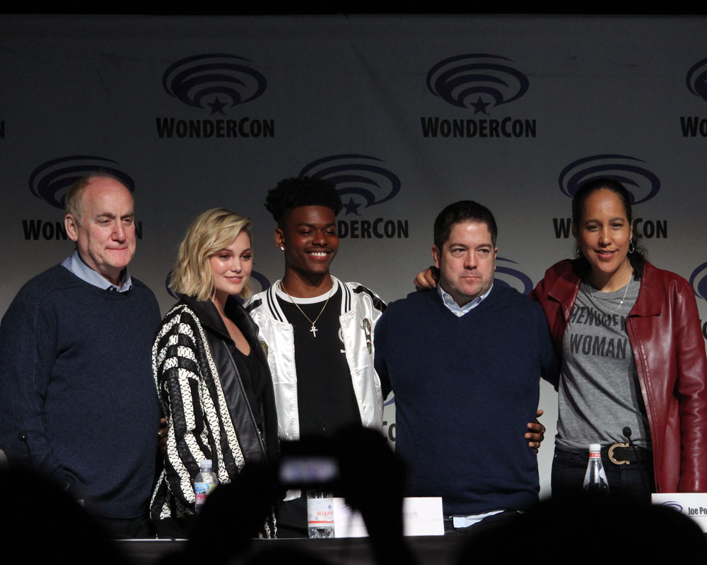 Jeph Loeb, Olivia Holt, Aubrey Joseph, Joe Pokaski and Gina Prince-Bythewood at the Wondercon 2018 Cloak & Dagger Panel